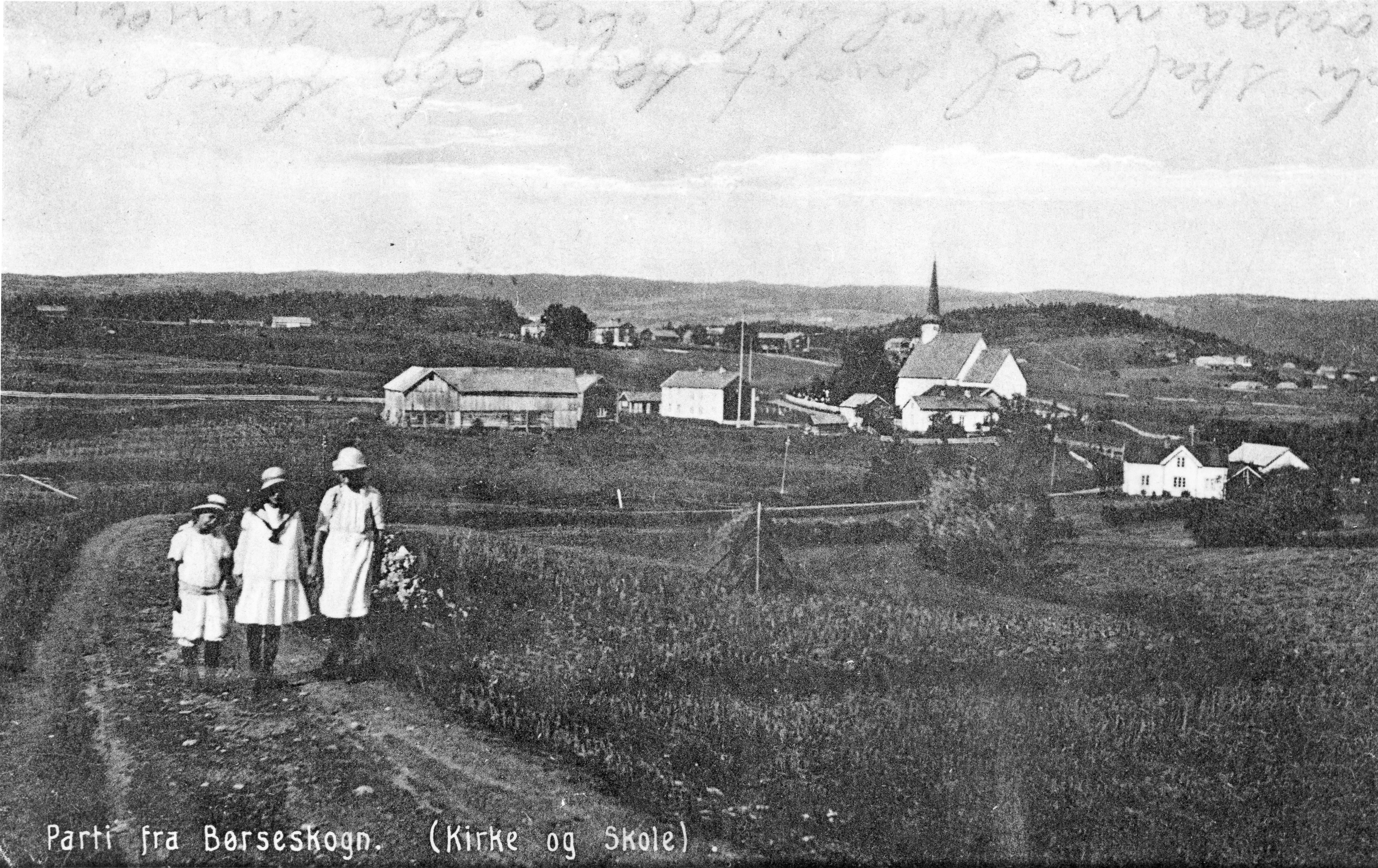 Skaun church and school, Norway